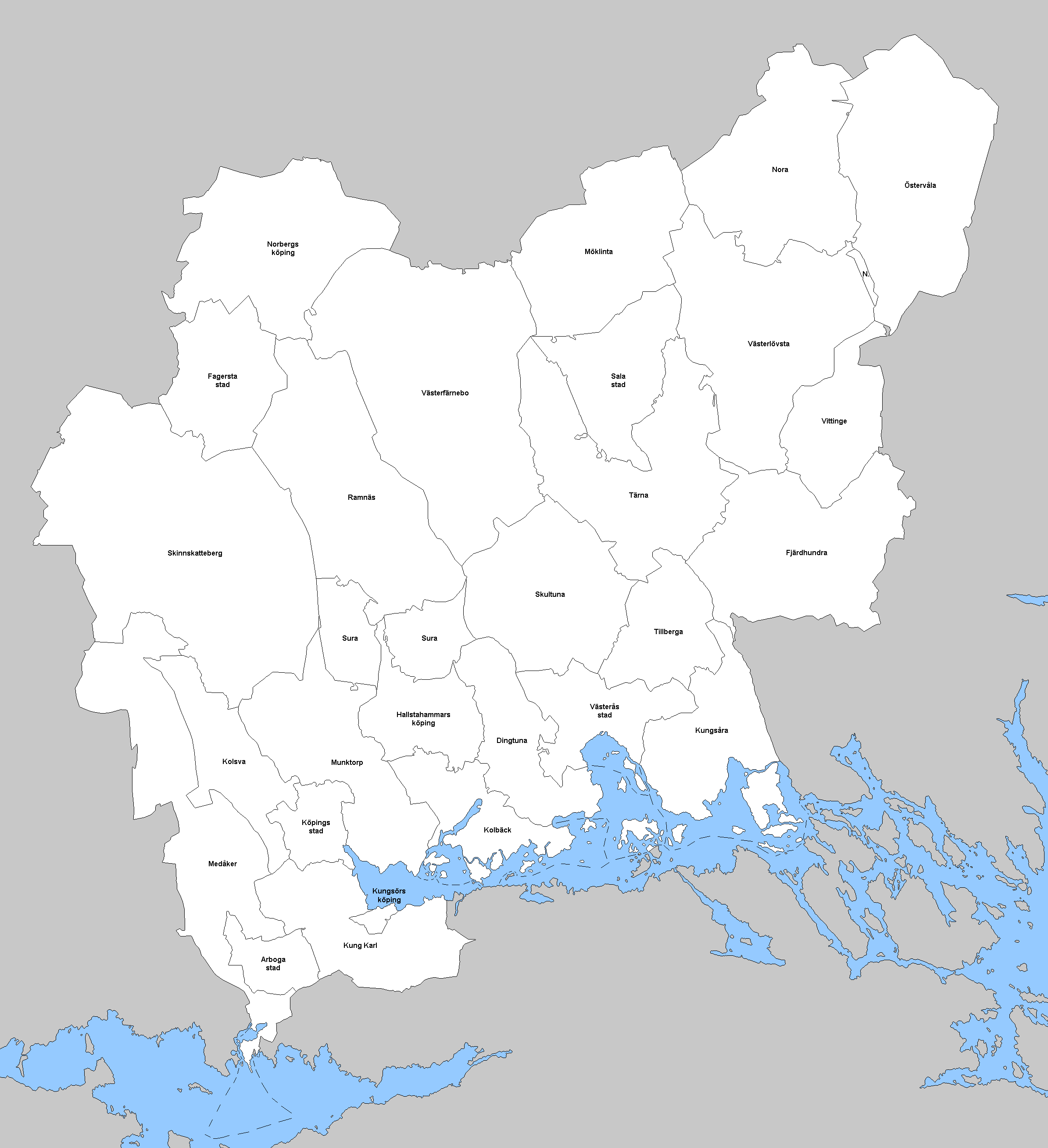 Old municipalities in Västmanland, 1952.